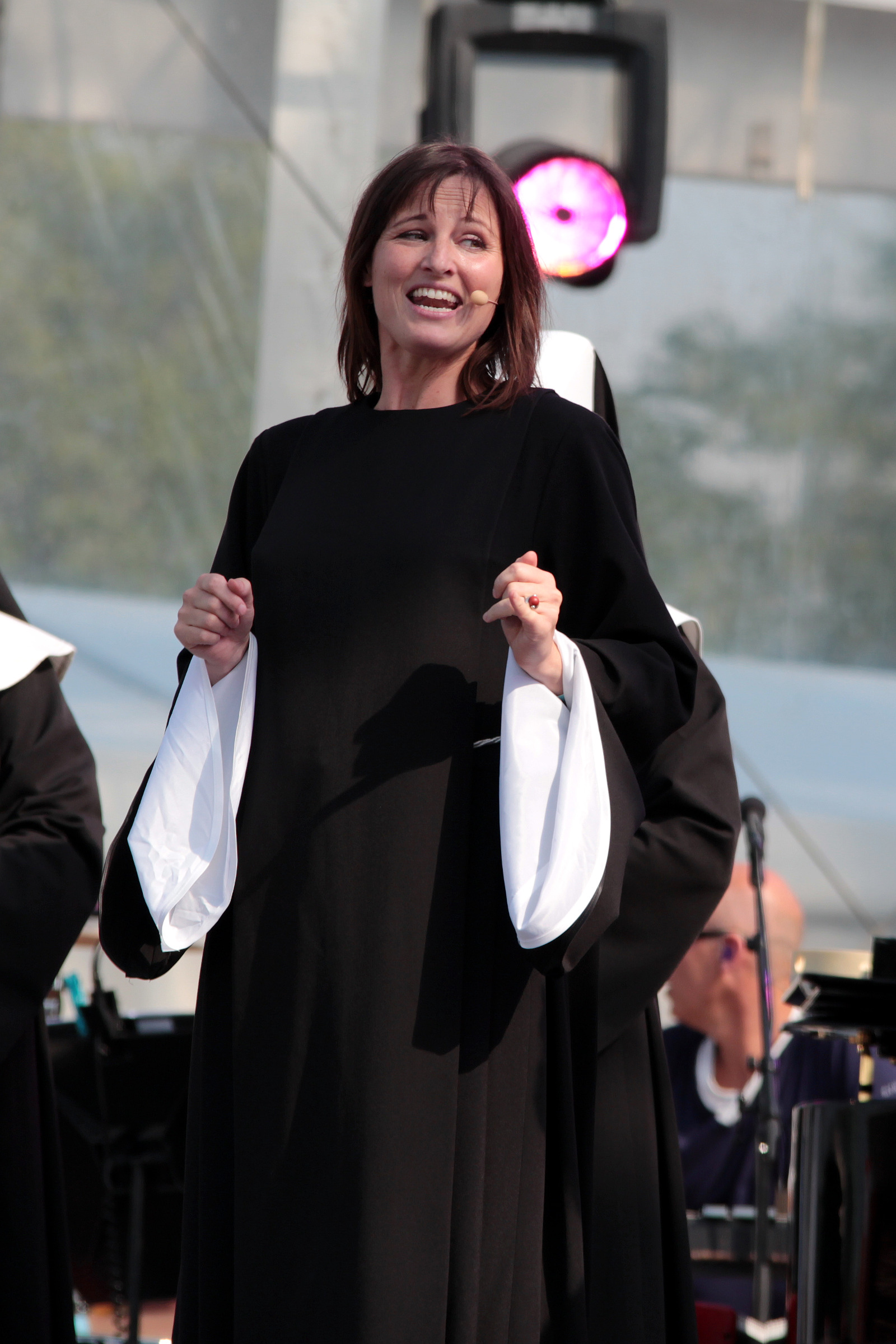 Brigitte Heitzer as a nun in the musical Nonsens (Nunsense) during the rehearsals for the musical singalong at the Uitmarkt 2015 in Amsterdam. Crop of a photo in the category Uitmarkt 2015.